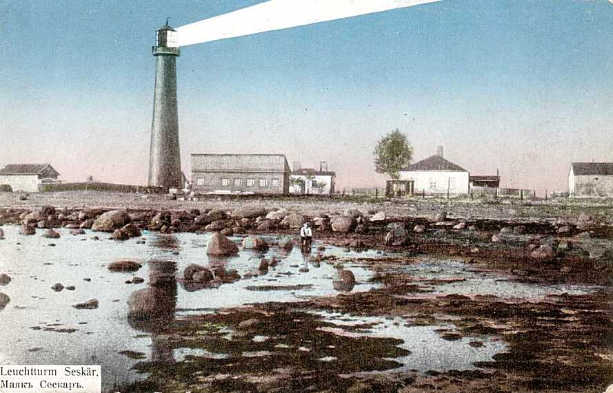 lighthouse at Seskar